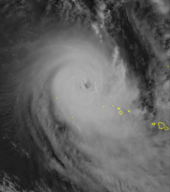 Satellite image of Cyclone Osea near the French Polynesia island chain in 1997.